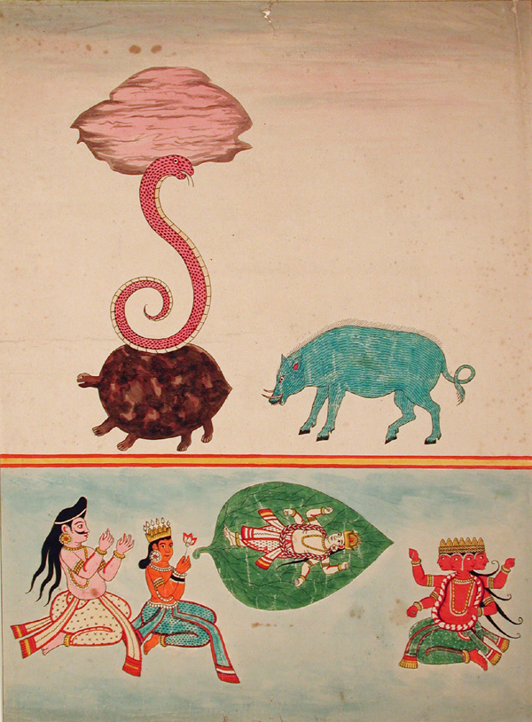 Display Artist: Richard Bernard Godfrey Creation Date: October 15, 1770 Display Dimensions: 23 in. x 17 1/4 in. (58.4 cm x 43.82 cm) Credit Line: Edwin Binney 3rd Collection Accession Number: 1990.1356 Collection: The San Diego Museum of Art